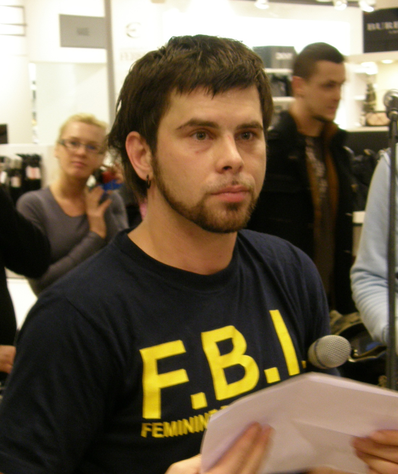 Latvian singer Intars Busulis.